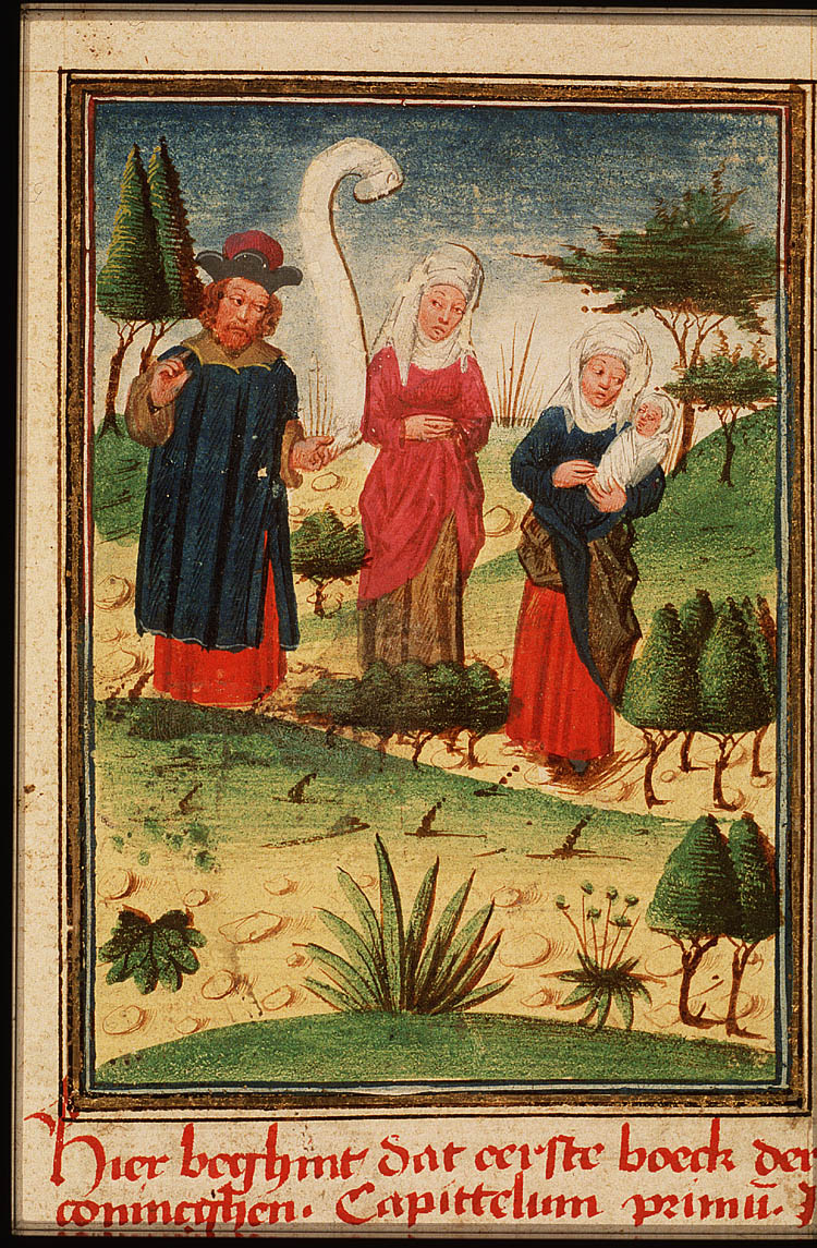 Illustration of Elkanah and his two wives returning to Ramah, manuscript Den Haag, KB, 78 D 39.